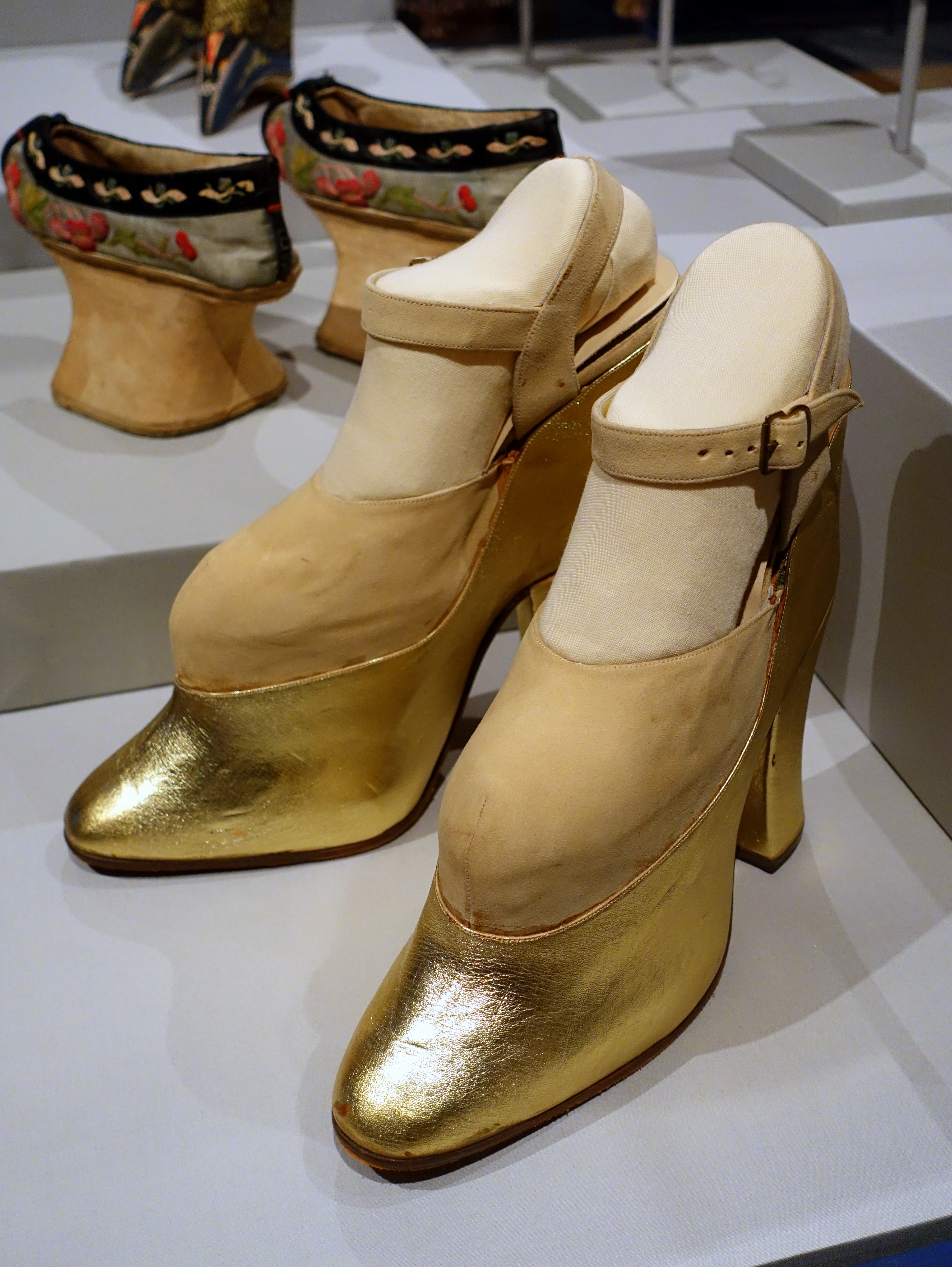 Exhibit in the Textile Museum, George Washington University, Washington, DC, USA. This work is old enough so that it is in the public domain.